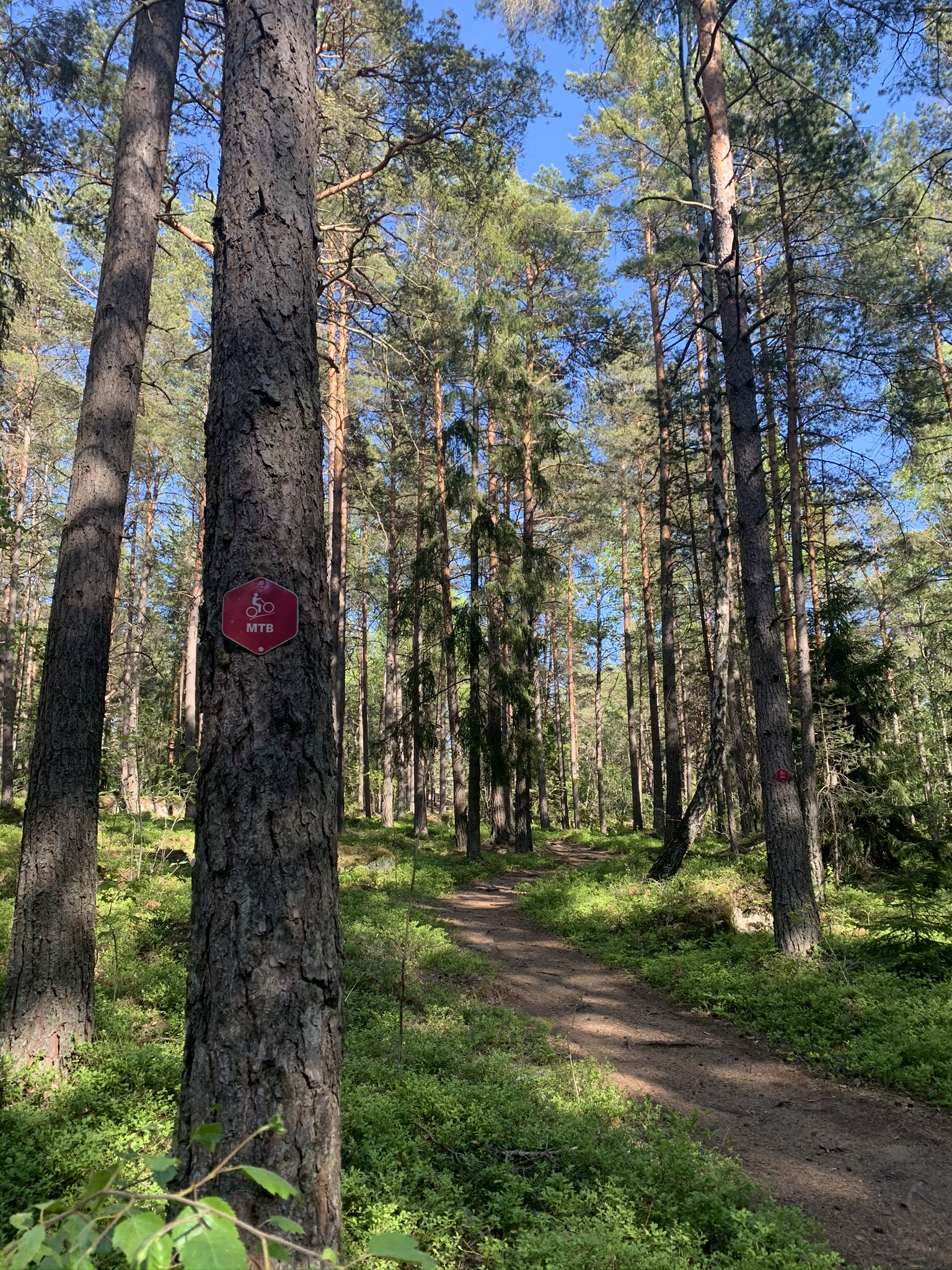 Mountain Bike Path within the forest in Igelbäcken Solna naturreservat